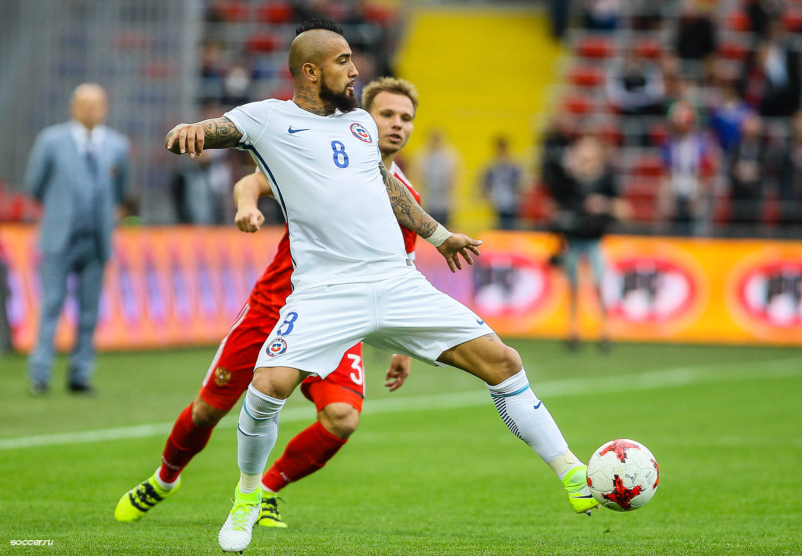 Arturo Vidal